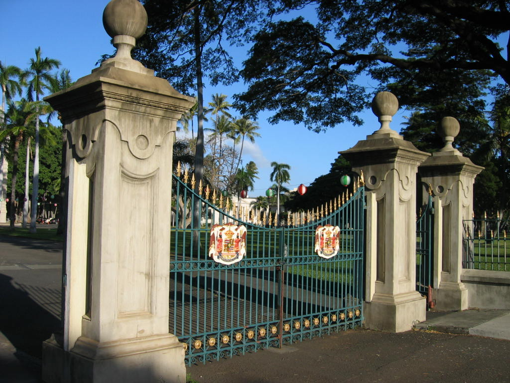 Gates at the Iolani Palace — in Hawaii. Taken by User:Jiang on December 23, 2005.